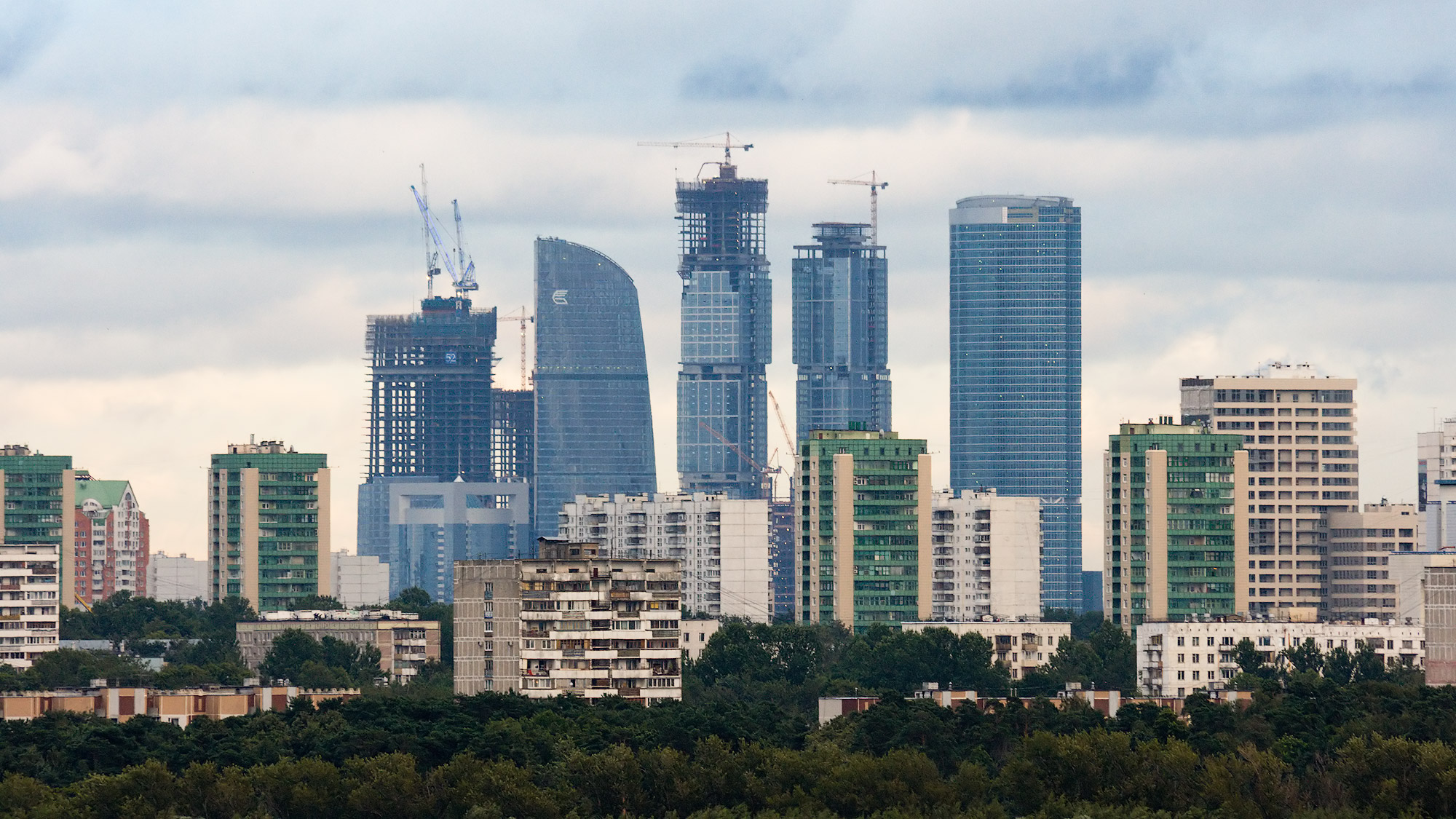 Moscow City landscape as of July 2008